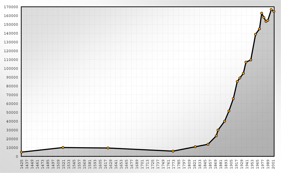 This image shows the population statistics of Osnabrück (Germany).